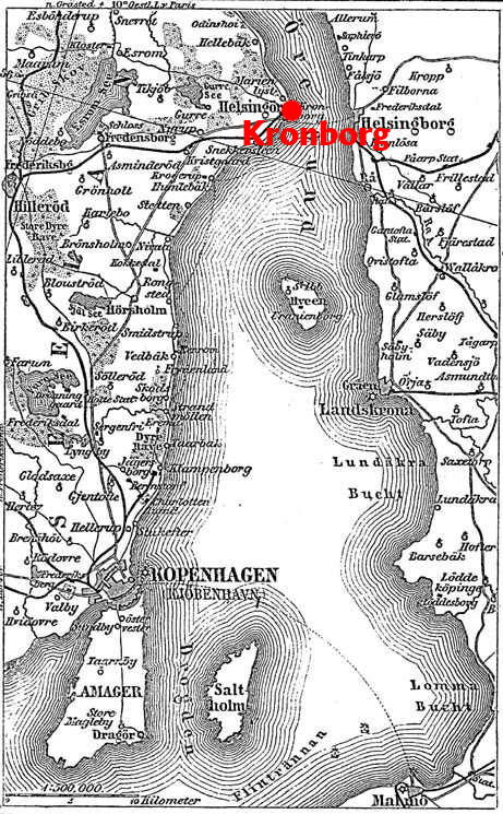 Own work based on Public Domain map